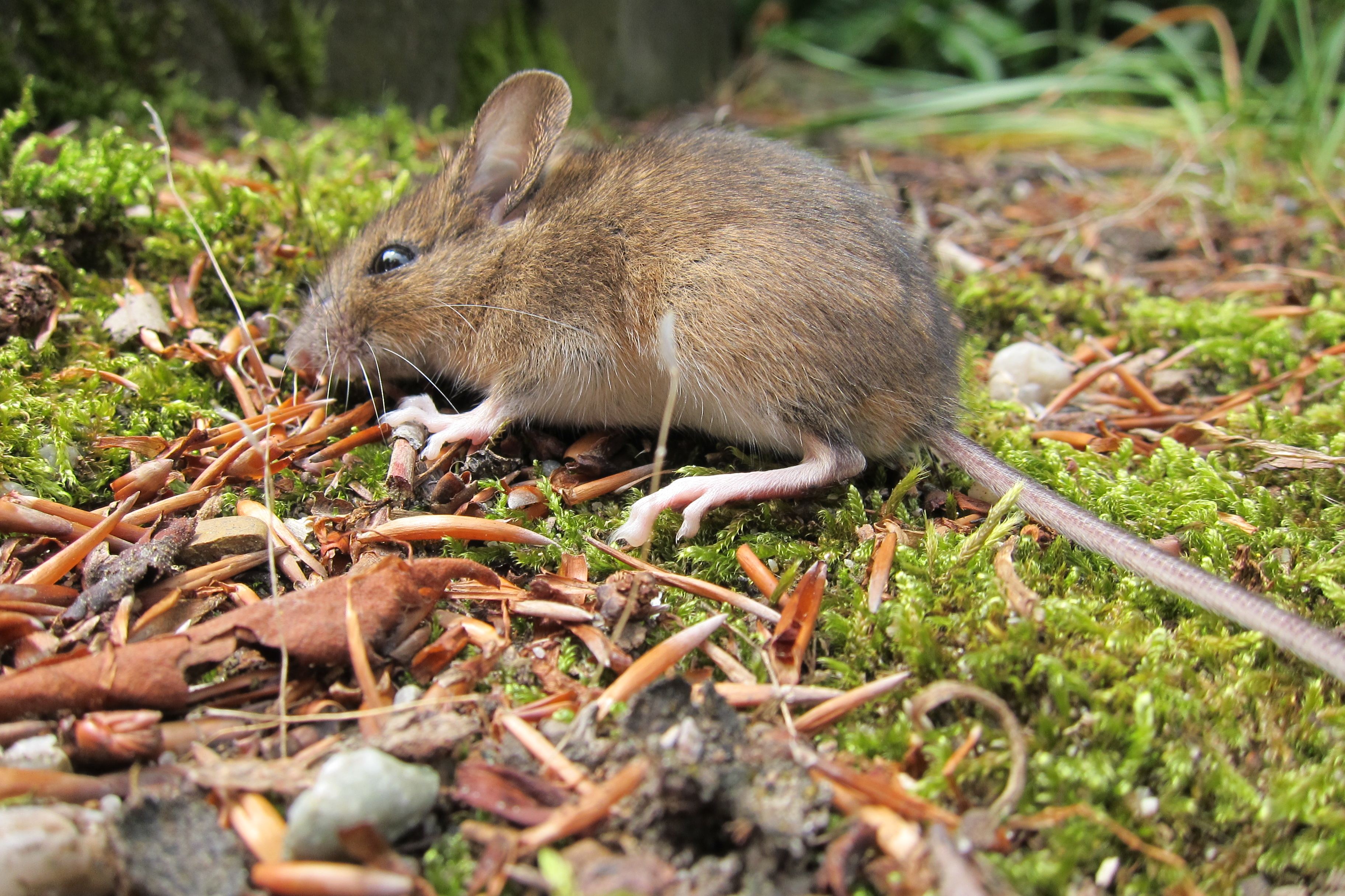 A visitor in the ABT garden at Velp: always welcome!!